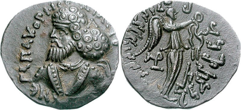 Pakores. Gondopharid Dynasty. Mid-late 1st c AD. BACILEYC (BACILEwN) NEGA PAKOPHC Rev Nike standing right